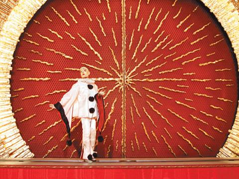 Opera in Focus company: Pagliacci strikes a wooden pose.